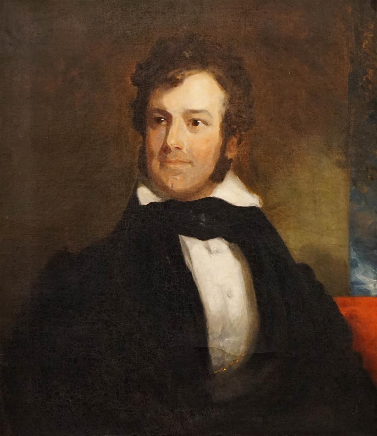 Edwin Forrest - First American Thespian by Henry Inman, 1832, oil on canvas, 30.25 x 26.25 in.